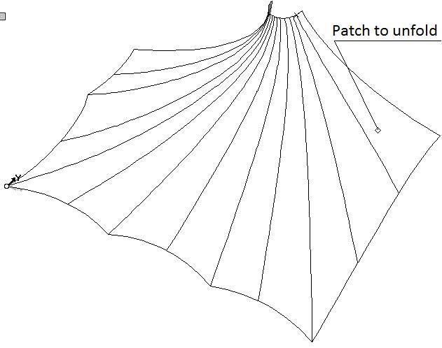 Patch_to